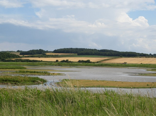 Cley Marshes Nature Reserve View from a hide on the reserve, which is managed by Norfolk Wildlife Trust, a registered charity.